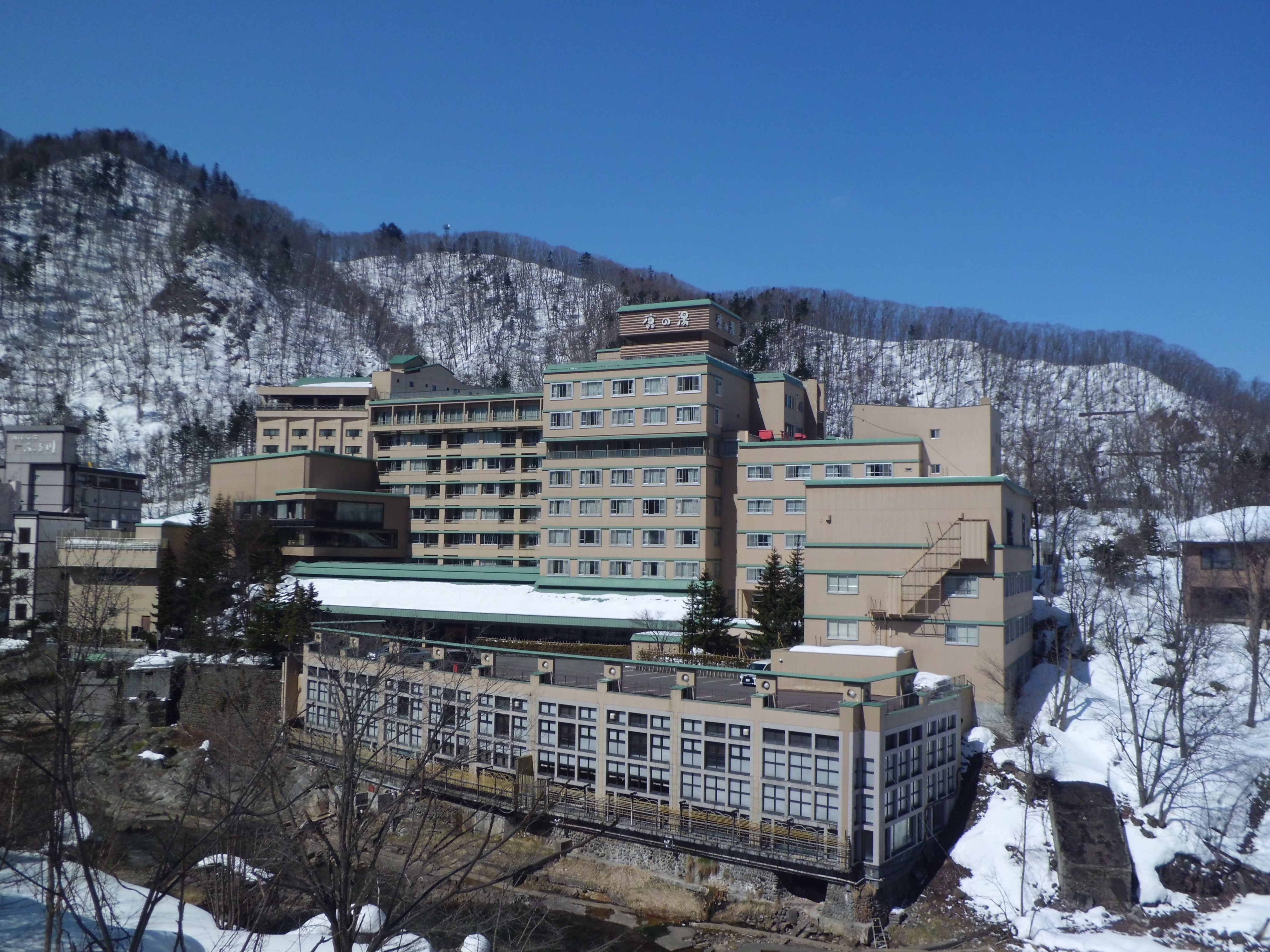 Hotel Shika-no-Yu